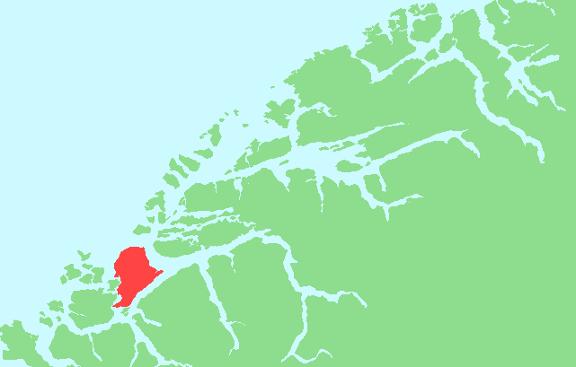 Locator map of Hareidlandet, Norway